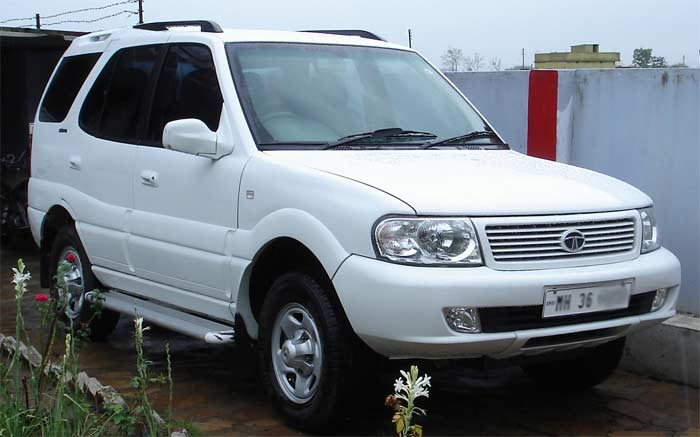 Tata Safari Dicor, 2006